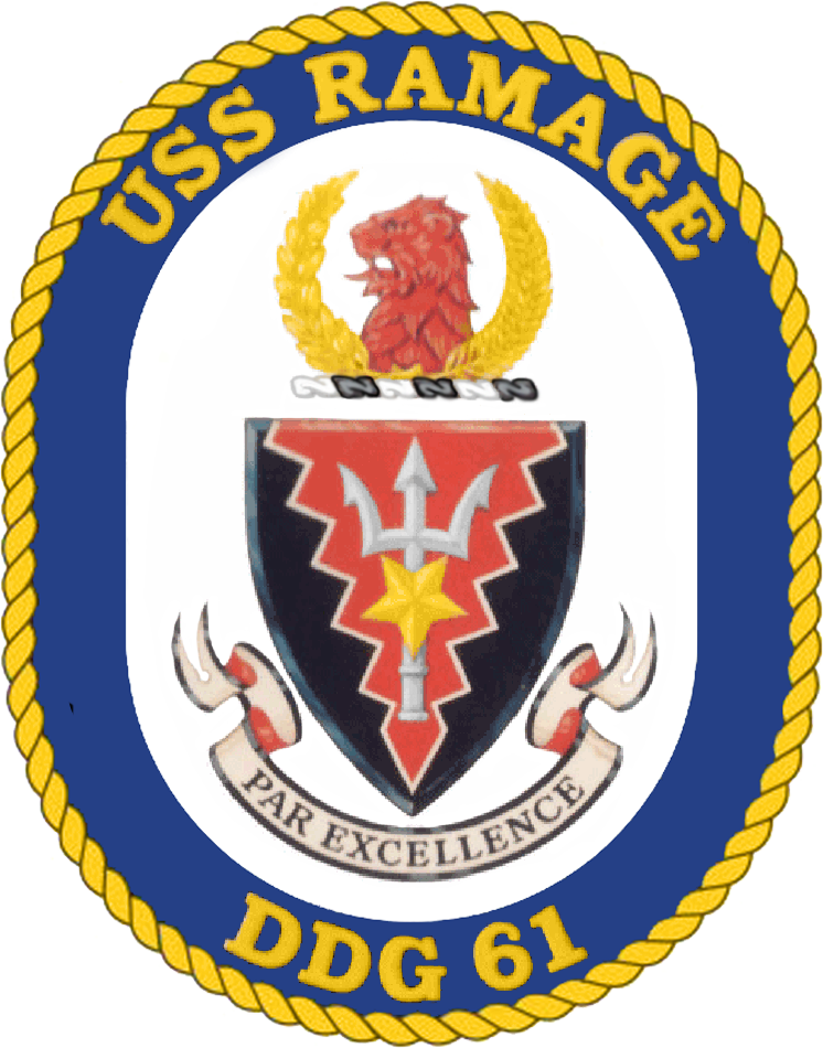 CRest of USS Ramage (DDG-61): Seal: The coat of arms as blazoned in full color upon a white oval enclosed by a blue collar edged on the outside with a gold rope and bearing the inscription “USS RAMAGE” at top and “DDG-61” in base all in gold. Crest: Issuing from a wreath Argent and Azure a lion’s head Gules environed by a wreath of laurel and palm Or. Shield: Azure, on a pile of indented Gules fimbriated Argent, a trident head of the like surmounted by a mullet of five points one point to base Or. Motto: A scroll Argent doubled Gules edged and inscribed “PAR EXCELLENCE” Azure.